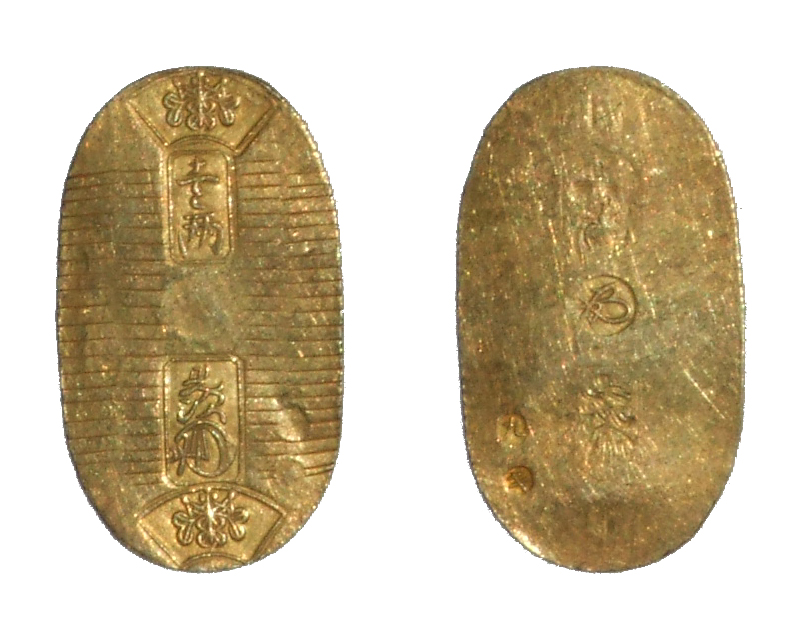 Shin-koban(gold koban)